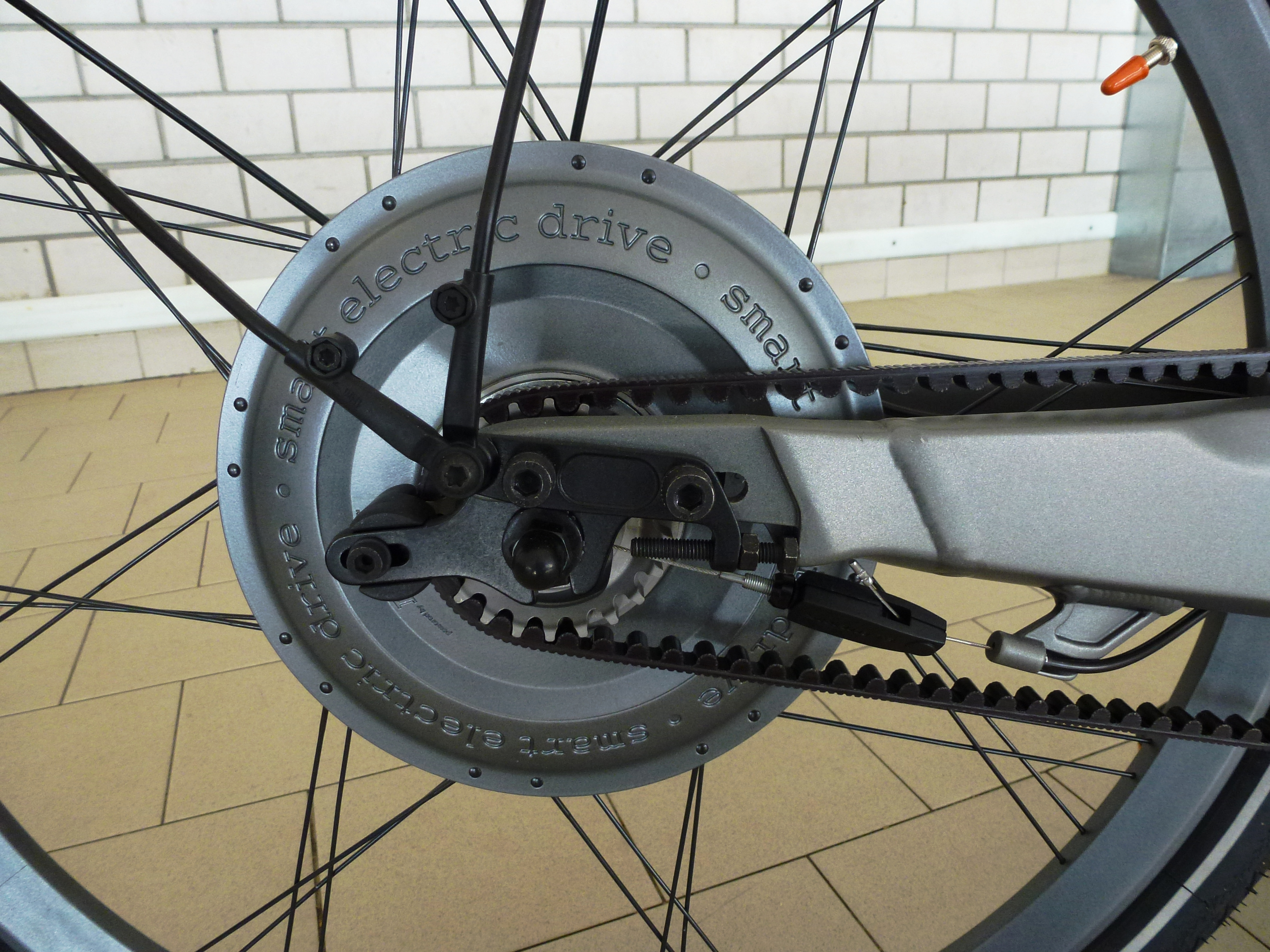 Daimler Smart e-bike motor